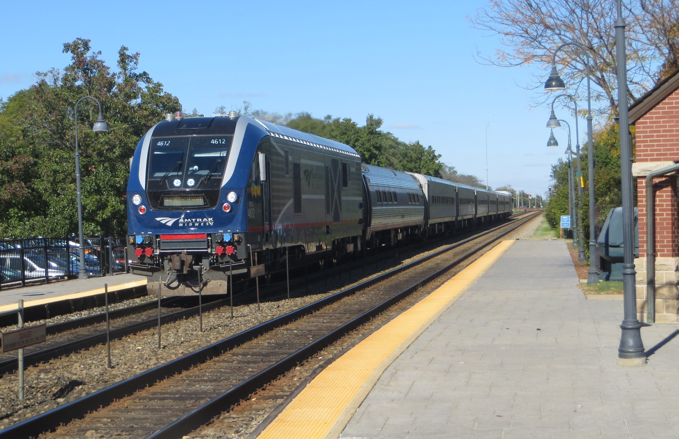 A Hiawatha Service train at Glenview station in October 2018